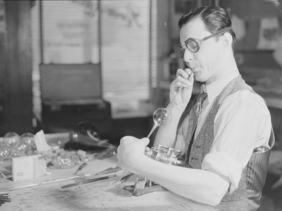 Romeo Lefebvre glass blower works in his studio.